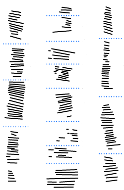 Representation of the columns of Ishango bone with the numbers: 19, 17, 13 and 11 / 7, 5, 5, 10, 8, 4, 6 and 3 / 9, 19, 21 and 11.